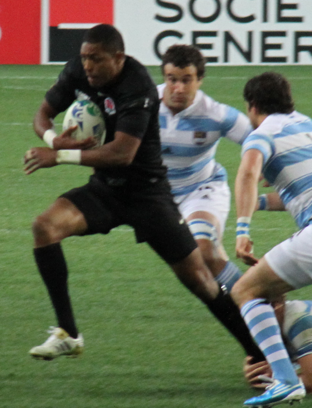 English rugby union player Delon Armitage during 2011 Rugby World Cup match against Argentina.